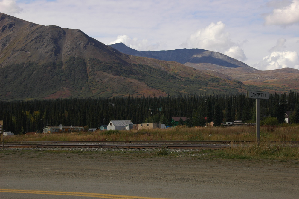 Town of Cantwell, Alaska, with railroad tracks for the Alaska Railroad running in the foreground